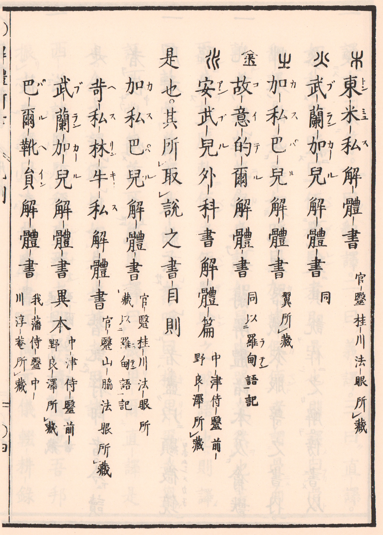 Sugita Genpaku et al.: Kaitai Shinsho, 1774 (List of used Western literature)